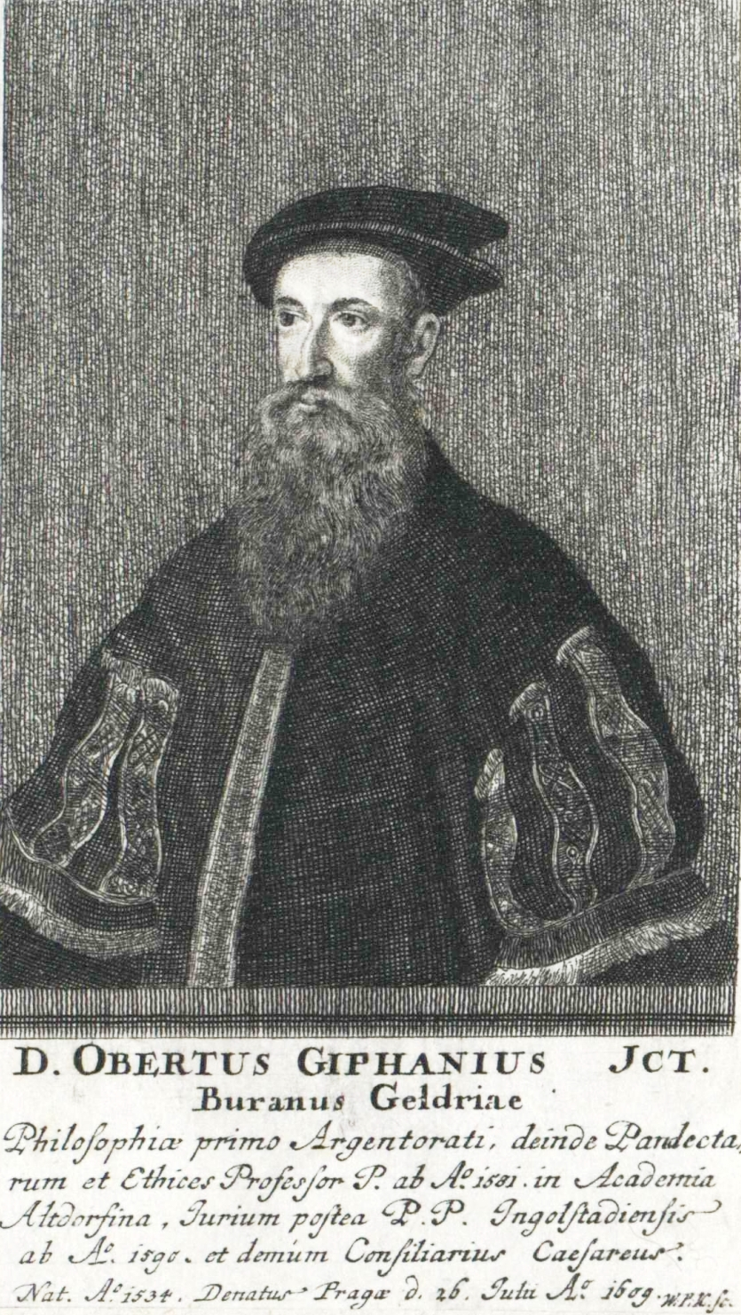 Obertus Giphanius (Hubert von Giffen, 1534–1604), dutch philologist und jurist; IMAGE CONSULTABLE SUR VIDEODISQUE - SALLE DU PATRIMOINE, PORTRAIT, Giphanius (Obertus) ,de W. P. K., graveur (1600?)